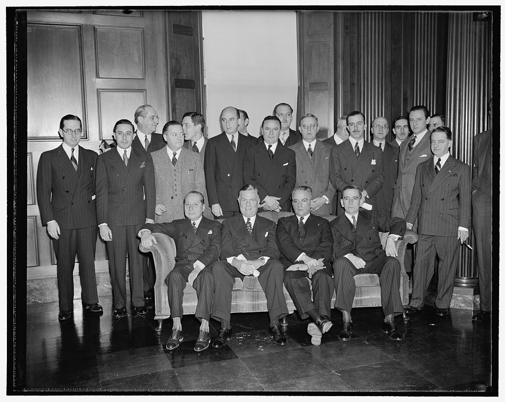 Conference of Latin American retailers. Washington, D.C., Nov. 1. Representatives of Latin-American governments and United States retailers met today under auspices of the Commerce Department to seek means of increasing western hemisphere trade. Reading from left to right in the picture are, seated: Dr. Cesar D. Andrade, Minister of Ecuador; Edward J. Noble, Undersecretary of Commerce; Colon Eloy Alfaro, Ambassador of Ecuador; and Dr. Hector David Castro, Minister of El Salvador. Standing, left to right: Guillermo Gazitua, Counselor, Brazil; Dr. Enrique Lopez Herrarte, First Secretary, Guatemala; Carlos Campbell del Campo, Commercial Counselor, Chile; Leon De Bayle, Minister, Nicaragua; Eduardo Salazar, Financial Counselor, Ecuador; Justo Sierra, Third Secretary, Mexico; Eugenio Aza, Consul, Mexico; Hugo Gouthier, Second Secretary, Brazil; Dr. Jose T. Baron, Charge de Affaires ad Interim, Cuba; Miguel E. Quirno-Lavelle, Commercial Attache, Argentina; Luis Coll-Pardo, Commercial Counselor, Venezuela; Lew B. Clark, Chief, Latin American Section, Bureau of Foreign and Domestic Commerce; George Artamonoff, President, Sears International, Chicago